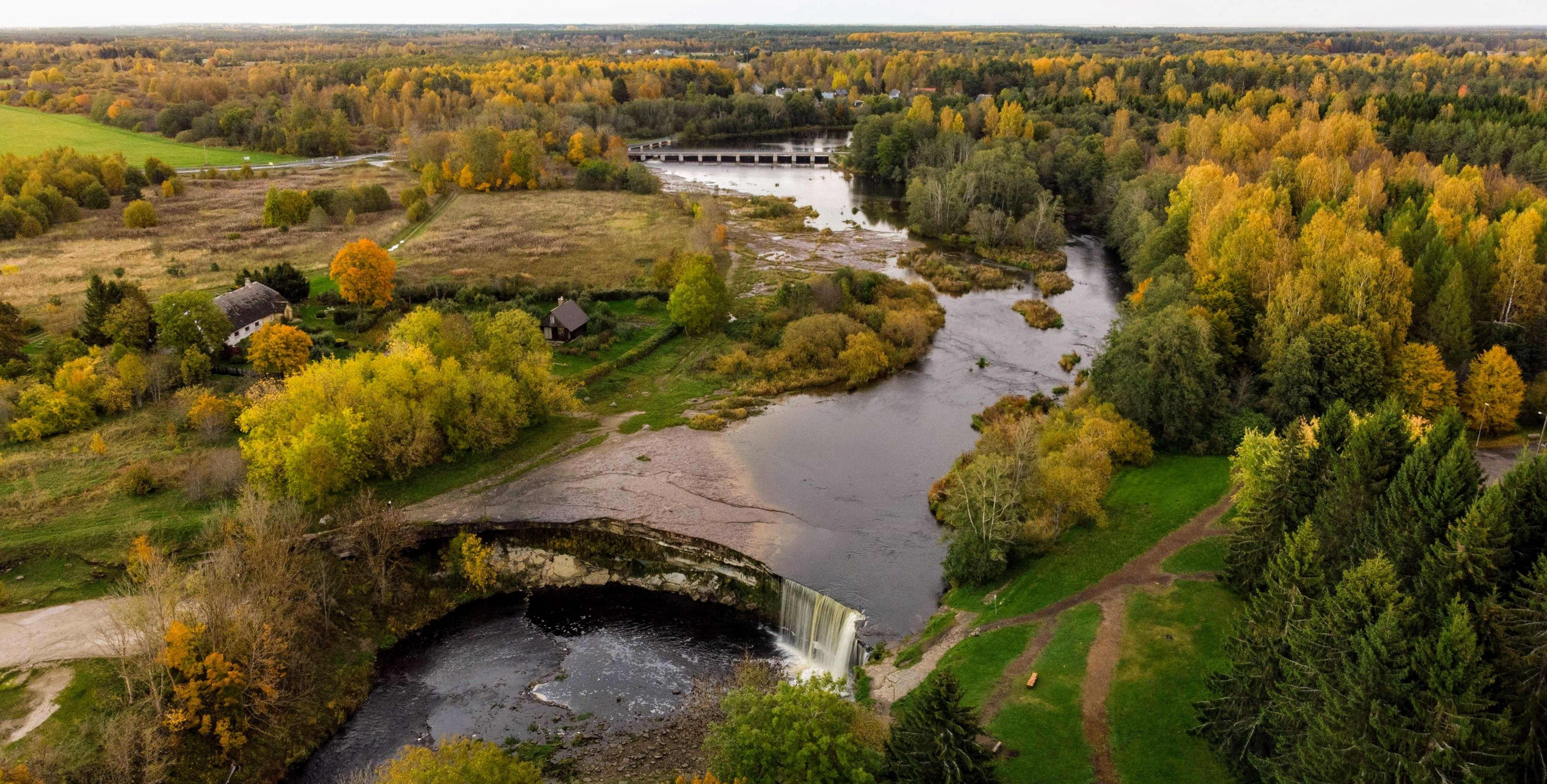 Jägala river and waterfall in October